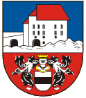 Former coat of arms of Skalná town, Cheb District, Czech Republic.